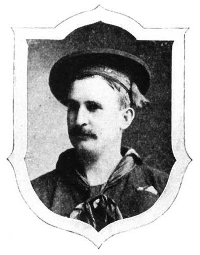 Halftone reproduction of a photograph of Medal of Honor recipient Blacksmith Austin J. Durney, USN, published in "Deeds of Valor," Volume II, page 360, by the Perrien-Keydel Company, Detroit, 1907.